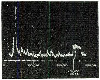 Photo of oscilloscope display showing the first reflection of a radar signal from the Moon, achieved on January 10, 1946 by the US Signal Corps Project Diana. The radar, in Fort Monmouth, New Jersey, USA, was a modified US Army WW2 SCR-271 set producing 1/4 second pulses at a power of 50 kW at 111.5 MHz, driving a "billboard" reflective array antenna consisting of 64 dipoles in front of a screen reflector giving 24 dB gain. The righthand pulse is the transmitted signal, while the smaller lefthand pulse is the return signal. It took the signal 2.4 seconds to make the 477,000 mile round trip journey from the Earth to the Moon and back. The horizontal axis of the oscilloscope trace is time, but it is calibrated in miles; it can be seen that the round trip time is equivalent to a range of 238,000 miles, the distance from the Earth to the Moon.